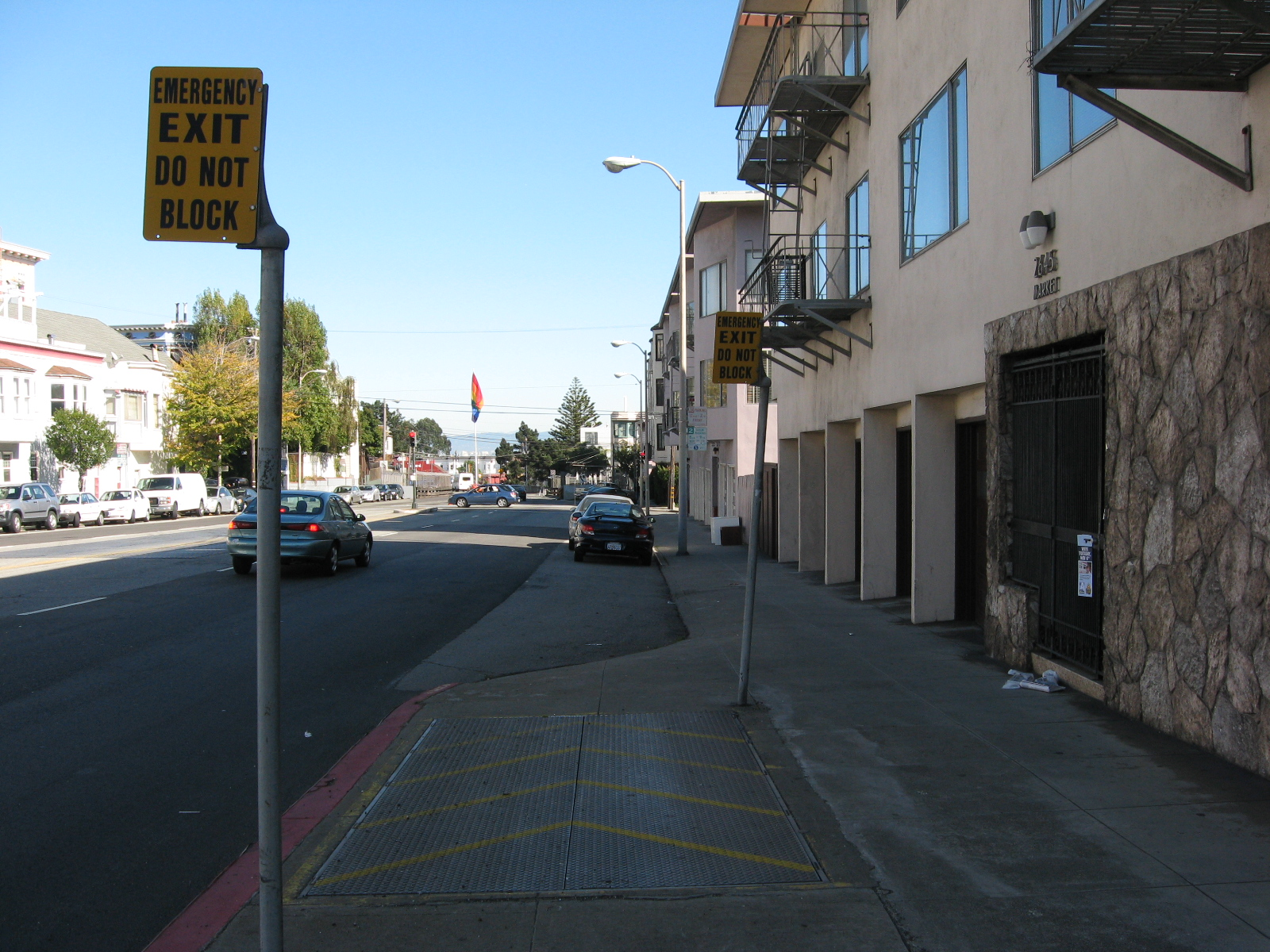 Eureka Station emergency exit.